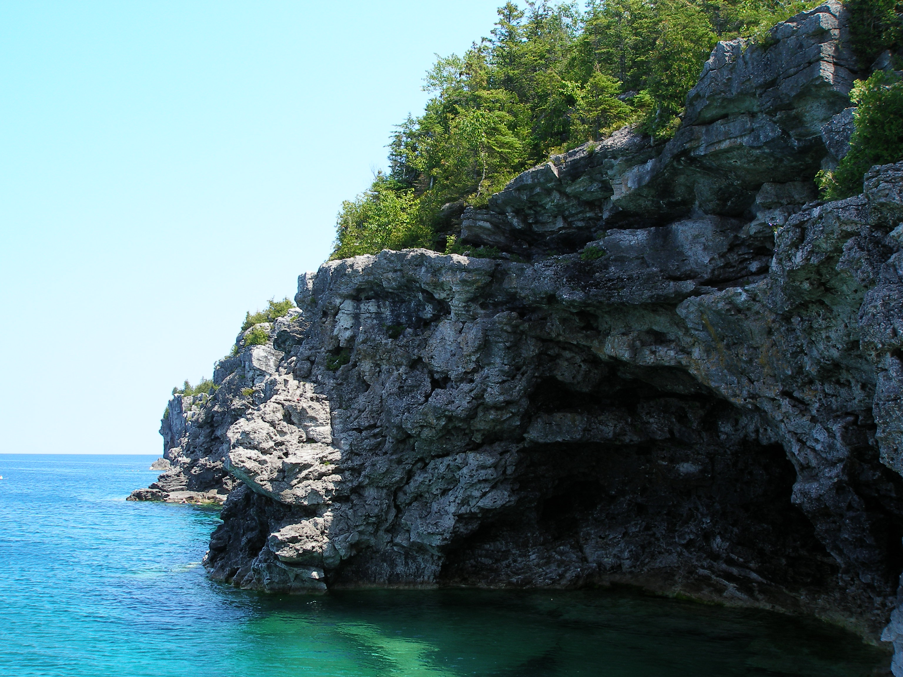 View of Georgian Bay, located on the Bruce Peninsula, in Southern Ontario.This photograph was taken from the end of the Bruce Trail, which winds around the Niagara Escarpment.